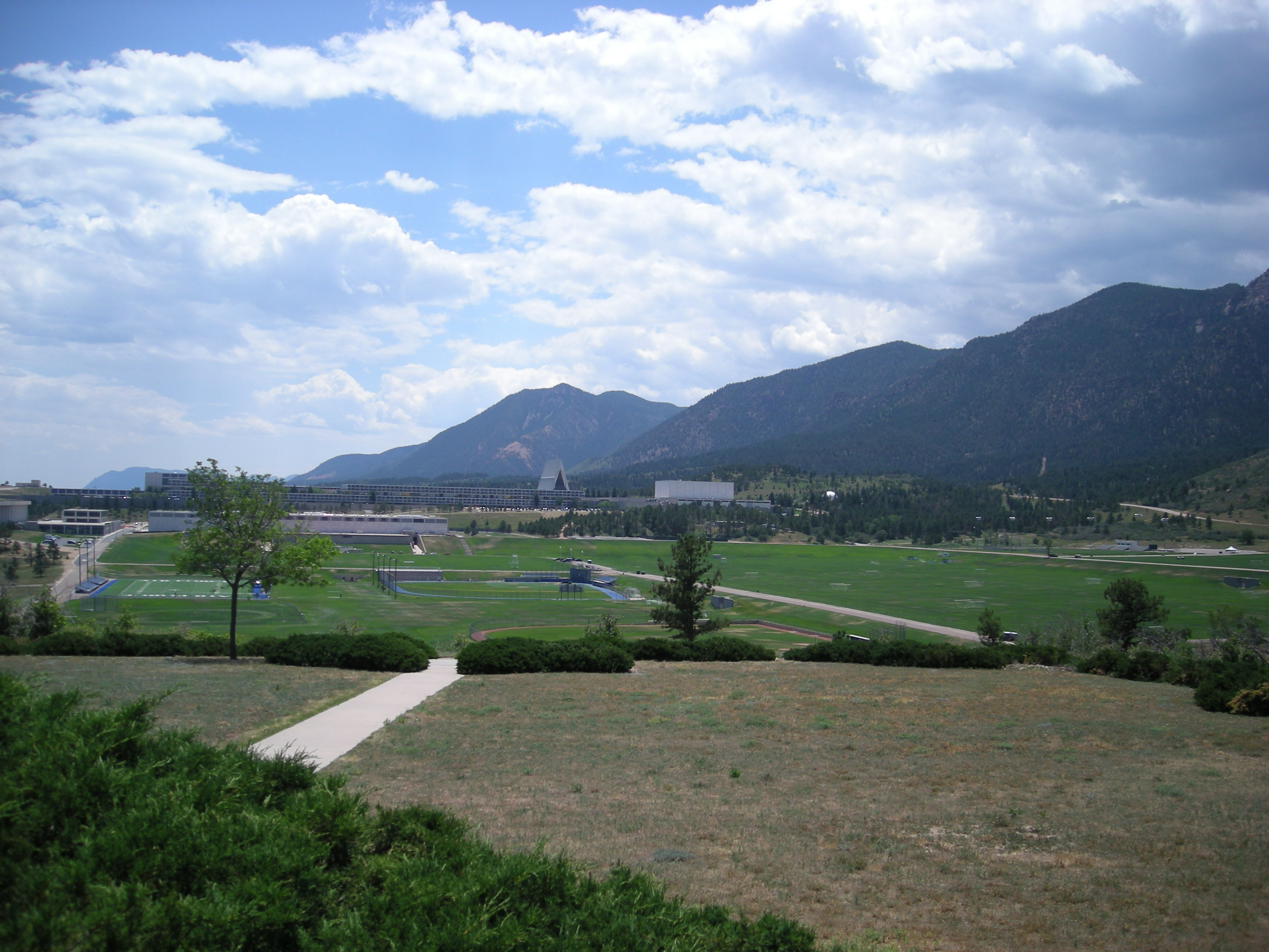 The campus of the United States Air Force Academy, with Rampart Range in the background, in Colorado Springs, Colorado (United States).